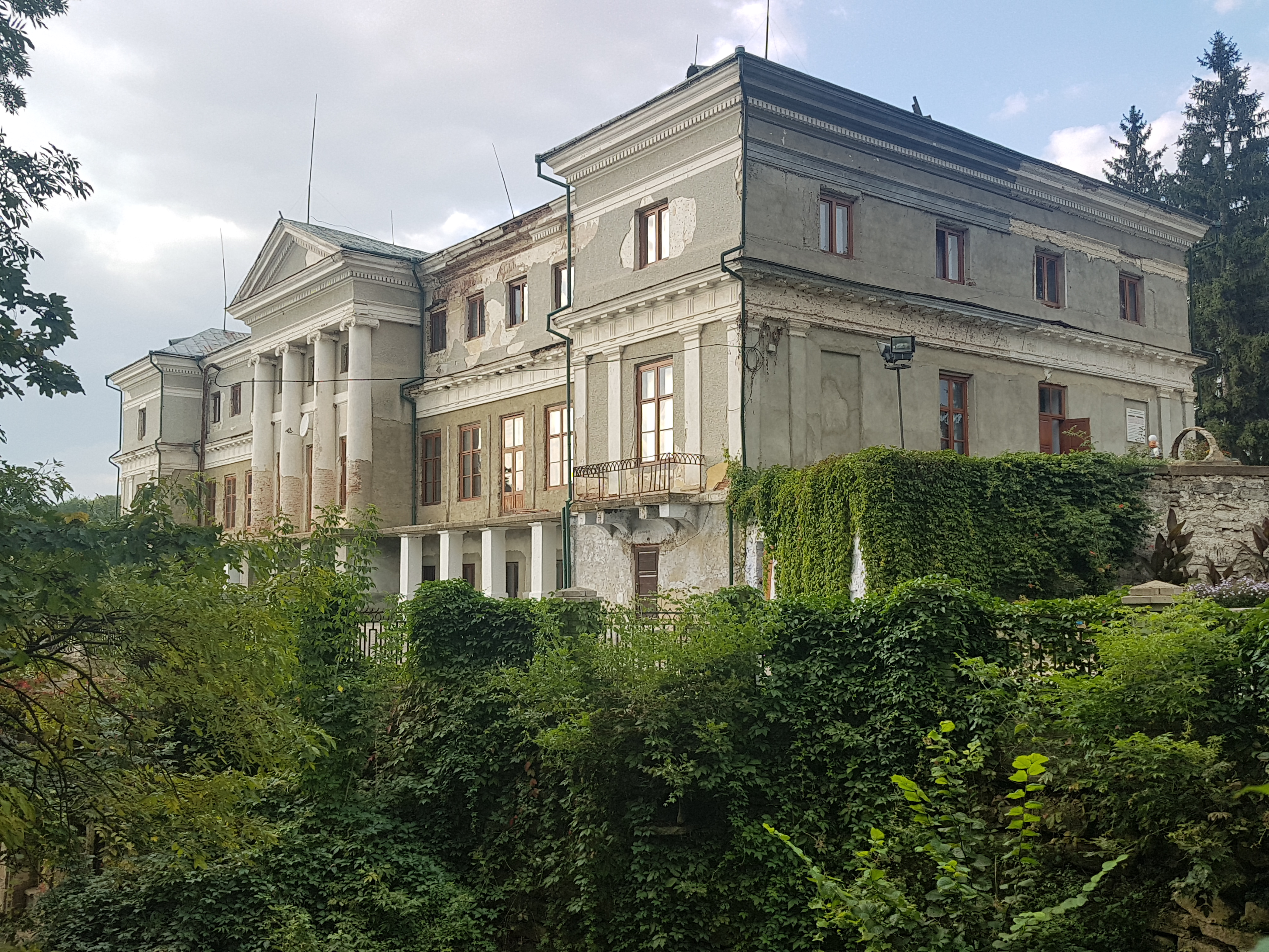 The Komar family palce in Murovani Kurylivtsi, September 2018